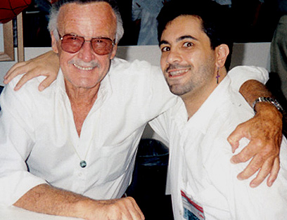 From left to right: comics writer/editor Stan Lee and writer/journalist Frank Lovece signing autographs at the 1993 Comic-Con International, San Diego.